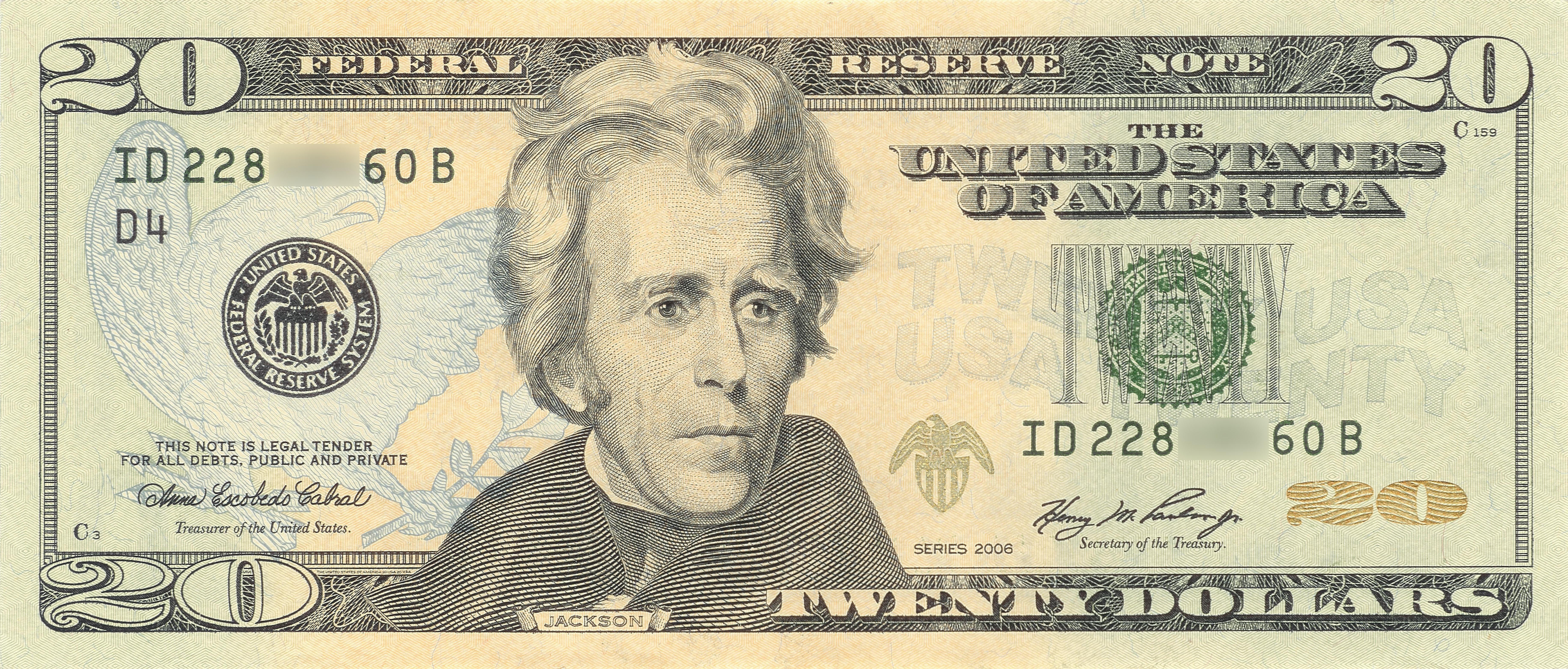 Scan of the Series 2006 twenty-dollar bill.